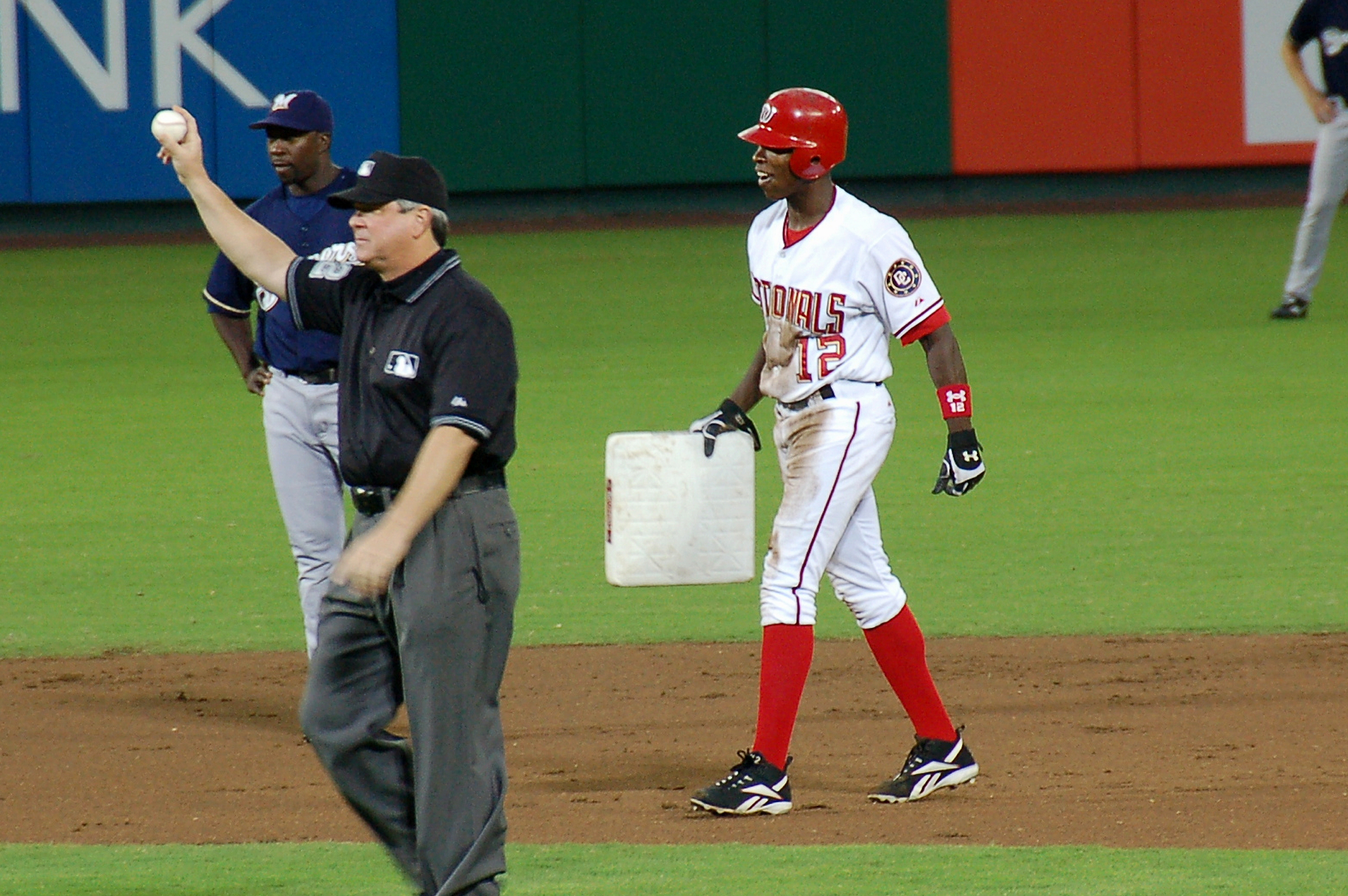 Alfonso Soriano takes 2nd base off the field after stealing his 40th base of the season and becoming only the fourth player in major league history to hit 40 home runs and steal 40 bases.